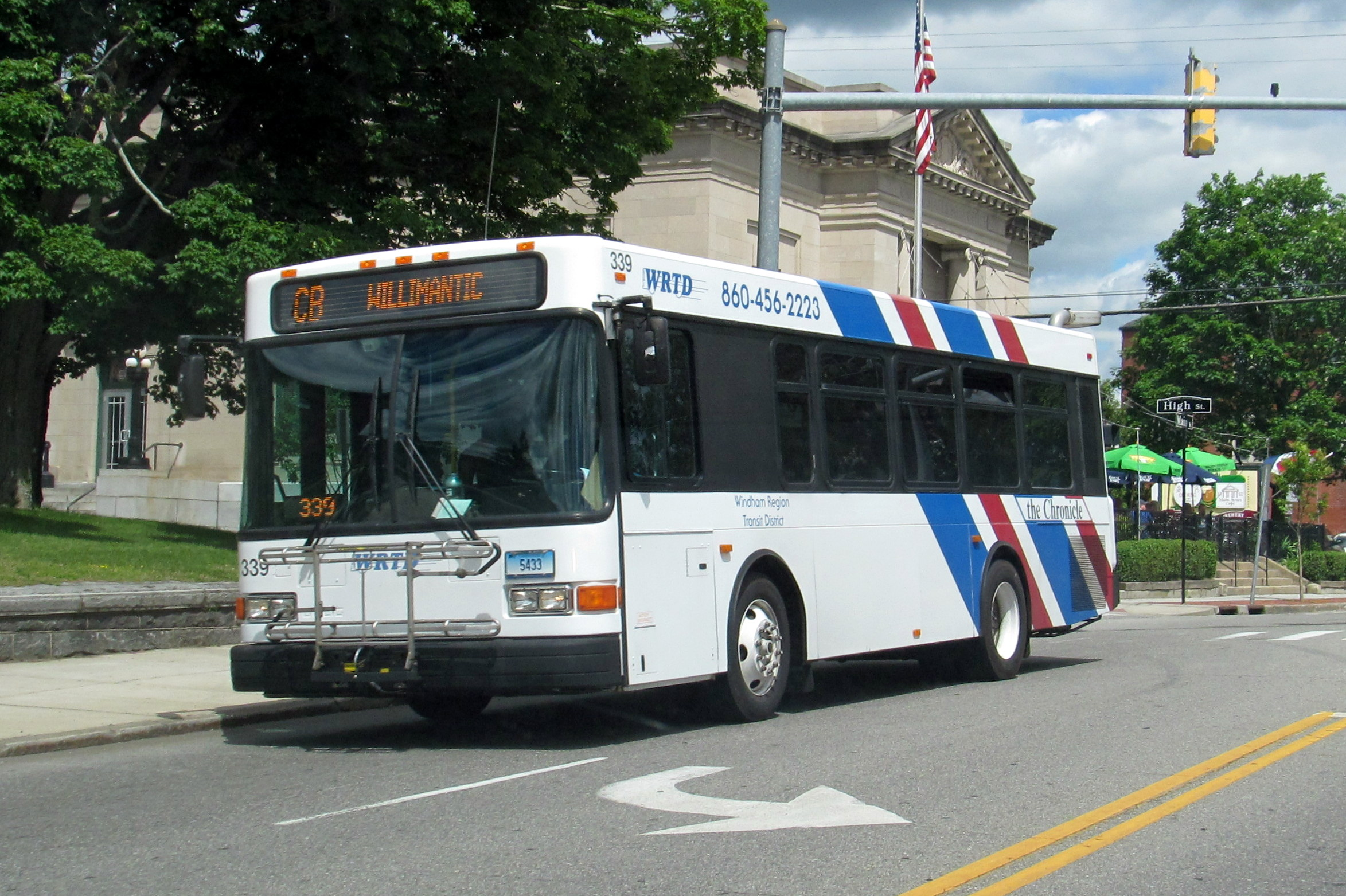 Windham Region Transit District bus 339, a twenty-nine foot Gillig Low Floor, in Willimantic in June 2017